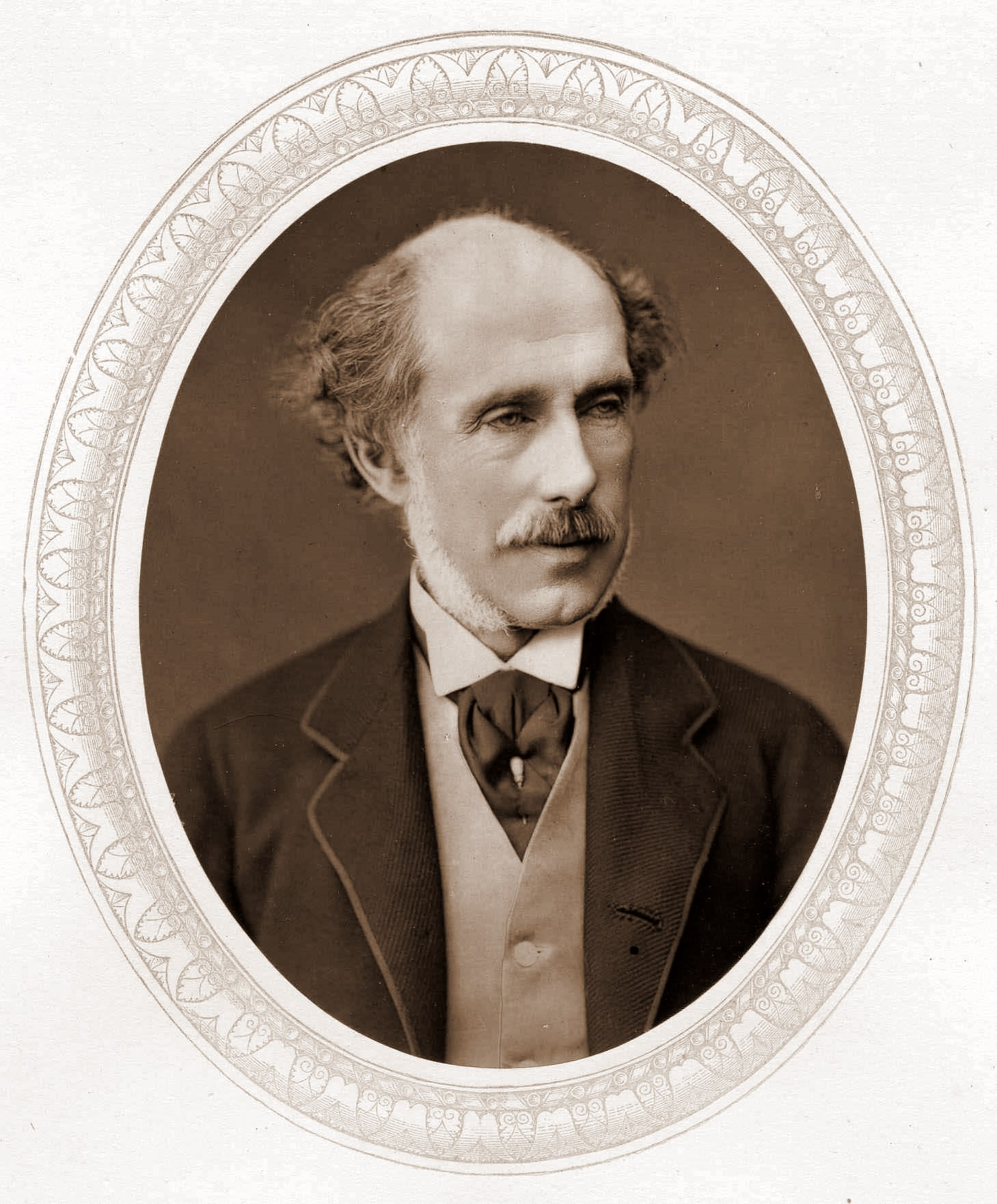 Woodburytype of William Cowper-Temple